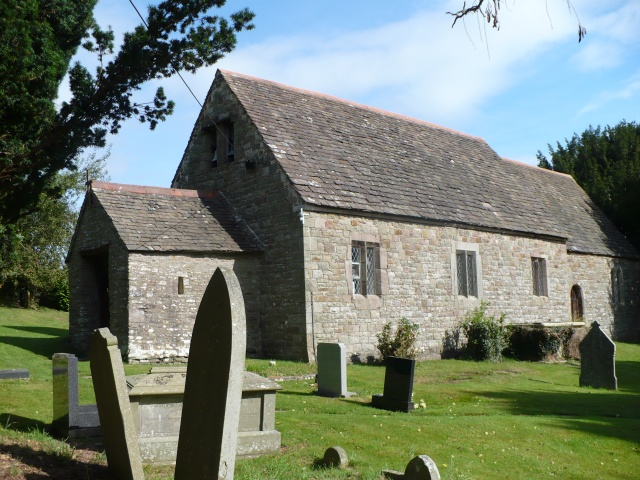 Llandegveth Church (St Thomas)